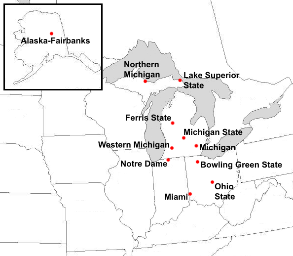 The CCHA map of schools for 2010 following Nebraska-Omaha's move to the WCHA.